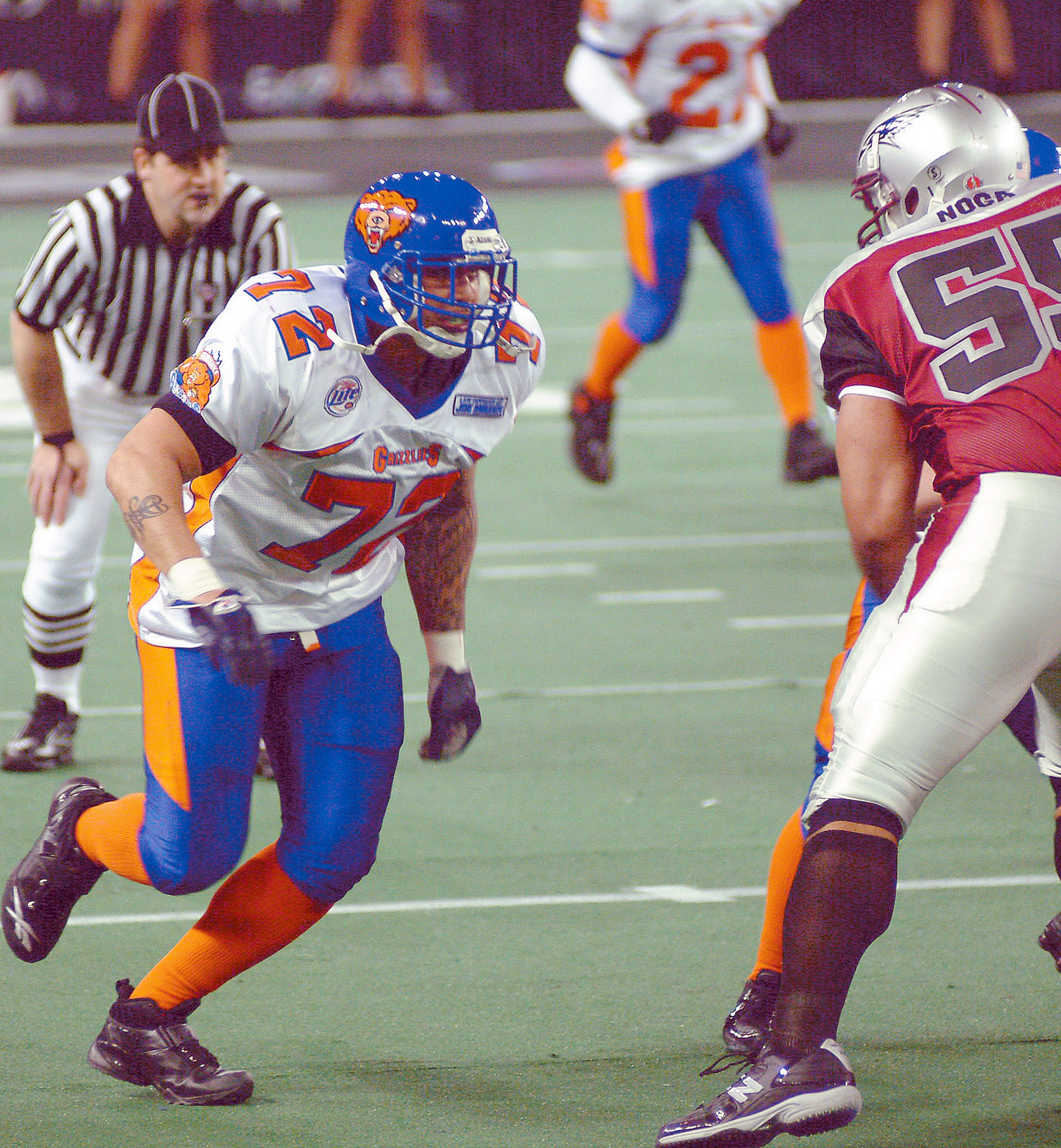 Fairbanks Grizzlies tight end Augustine Nepo looks for a hole in the Alaska Wild defensive line. The Wild won 88-12.